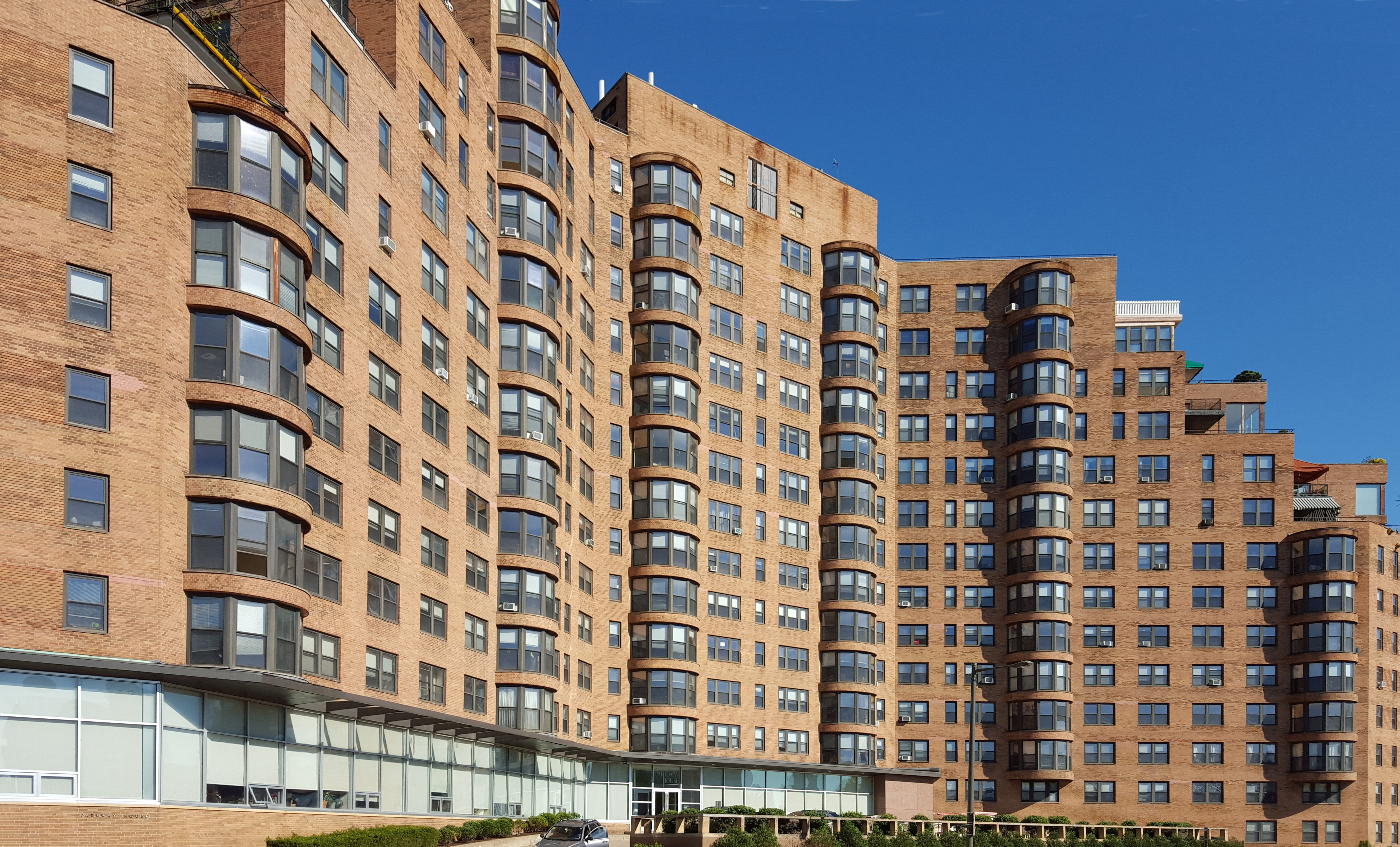 The Parkway House in Philadelphia as viewed from the southwest - image corrected for camera distortion